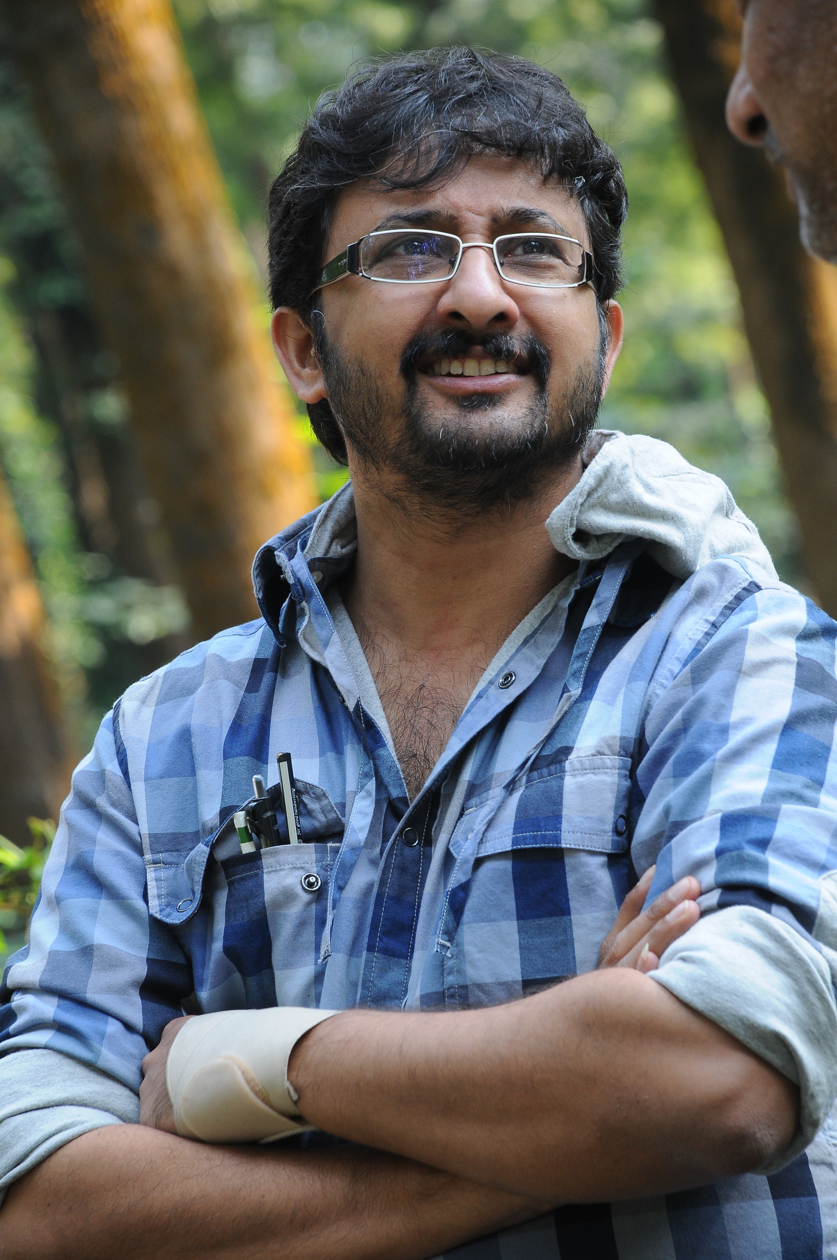 Teja shooting for 1000 Lies